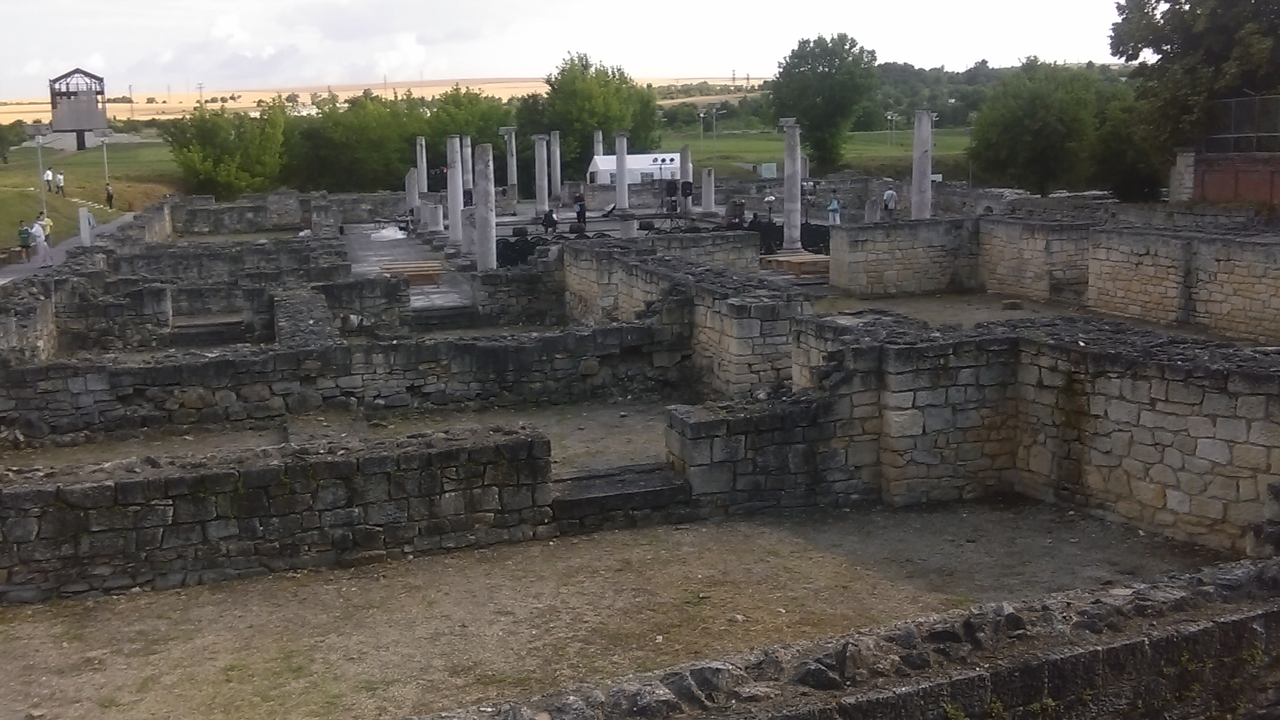 Buildings and Forum, Abrittus archeological reserve, Razgrad